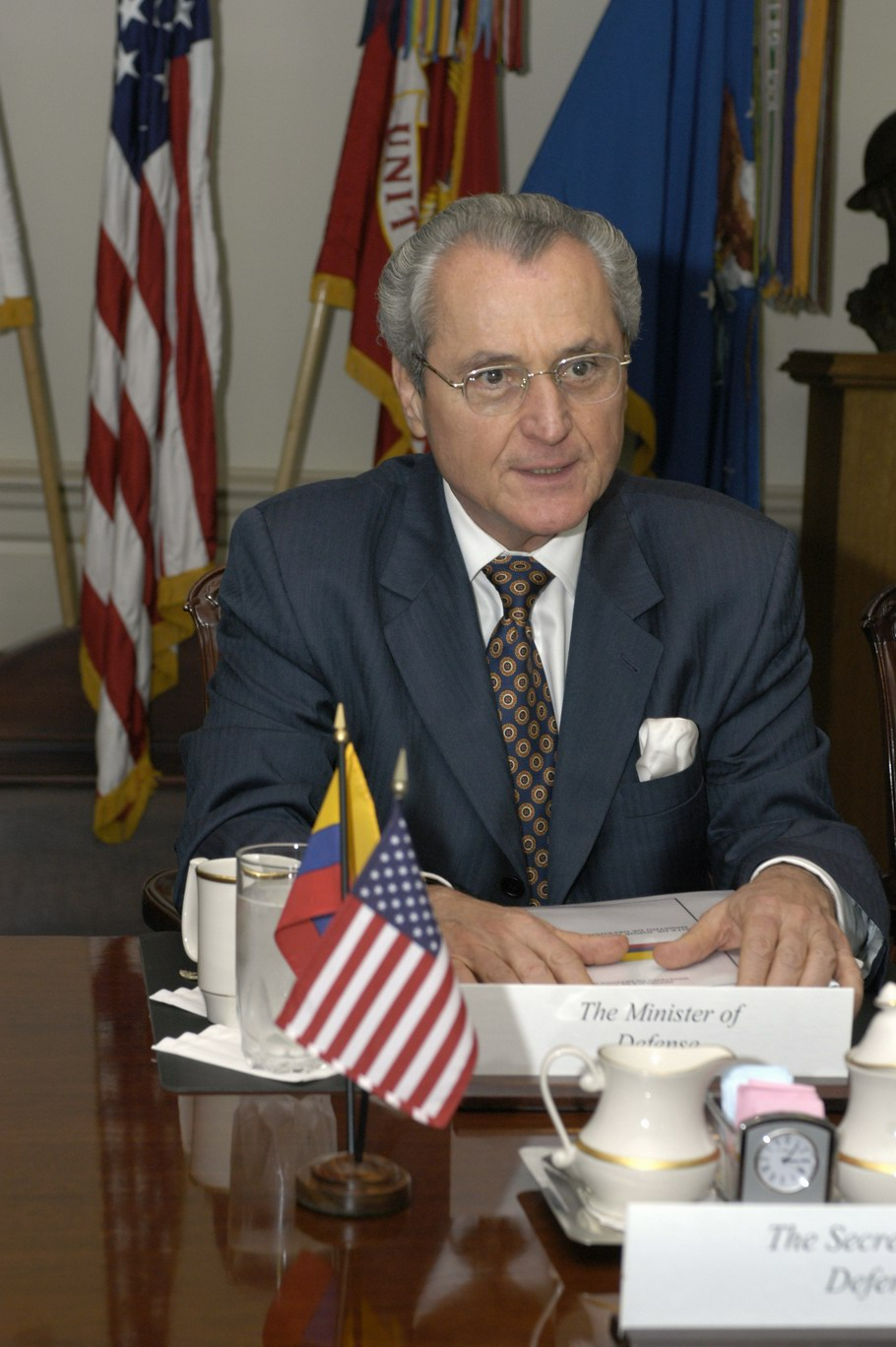 Colombian Minister of Defense Jorge Alberto Uribe Echavarria meets with Secretary of Defense Donald H. Rumsfeld in the Pentagon on September 30, 2004. Echavarria and Rumsfeld are meeting to discuss defense issues of mutual interest.